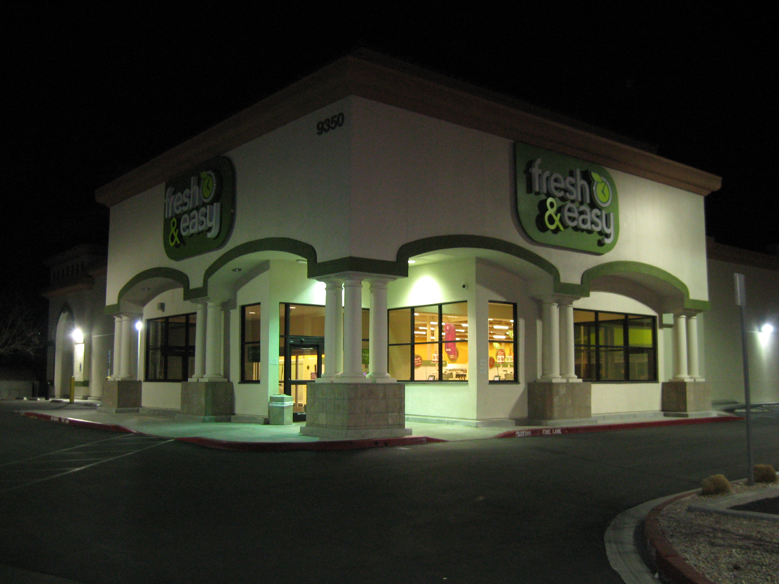 A picture of the supermarket chain Fresh & Easy in the Sun City Summerlin neighborhood of Las Vegas, Nevada, U.S.A.